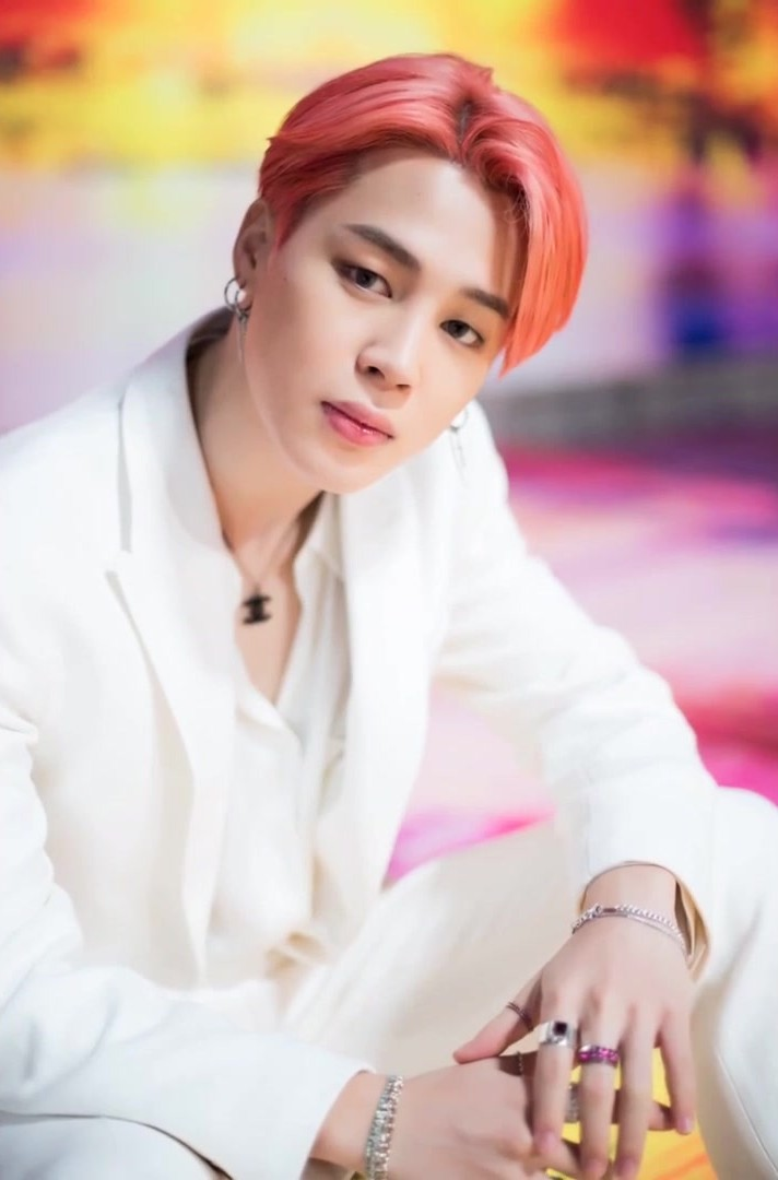 Park Ji-min for Dispatch "Boy With Luv" MV behind the scene shooting, 15 March 2019